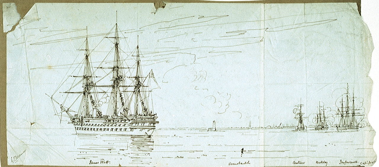 HMS 'James Watt' off Cronstadt, with the 'Centaur', 'Bulldog' and 'Imperieuse' in action near the Tolboukin lighthouse, August 1855. This appears to be part of a slightly more panoramic drawing, on two joined sheets of which about a quarter of the whole is missing from the right end, cutting off the name of 'Captain Wa[tson]' of the 51-gun screw-assisted 'Imperieuse'. The names of the ships are inscribed on it at the bottom, as is 'Cronstadt', the Russian Baltic naval base, part of whose dockyard can just be seen on the horizon. The ships on the right ('Centaur' and 'Bulldog', 6-guns, both being paddle steamers) are apparently in action closer in than the larger 'James Watt' can reach and the latter's men are crowding up her rigging to watch. The focus of the action is missing with the lost section but it is apparently a minor long-range Crimean War engagement with Russian batteries and gun-boats that took place near the Tolboukin lighthouse (centre) on 16 August 1855. Mends, by then a commander in rank, witnessed it while second-in-command of the 'James Watt' from January 1854 until early 1856. While the Navy frequently reuses ship names there was only one 'James Watt', originally planned as the 'Audacious' but renamed in 1847 before laying down at Pembroke Dock. A screw-auxiliary 2nd rate of 80-guns and 3083 tons, it was launched in 1853, saw immediate Baltic service, as shown here, and was eventually sold for breaking to Castle's of Charlton, on the Thames, in 1875. HMS 'James Watt' off Cronstadt, with the 'Centaur', 'Bulldog' and 'Imperieuse' in action near the Tolboukin lighthouse, August 1855